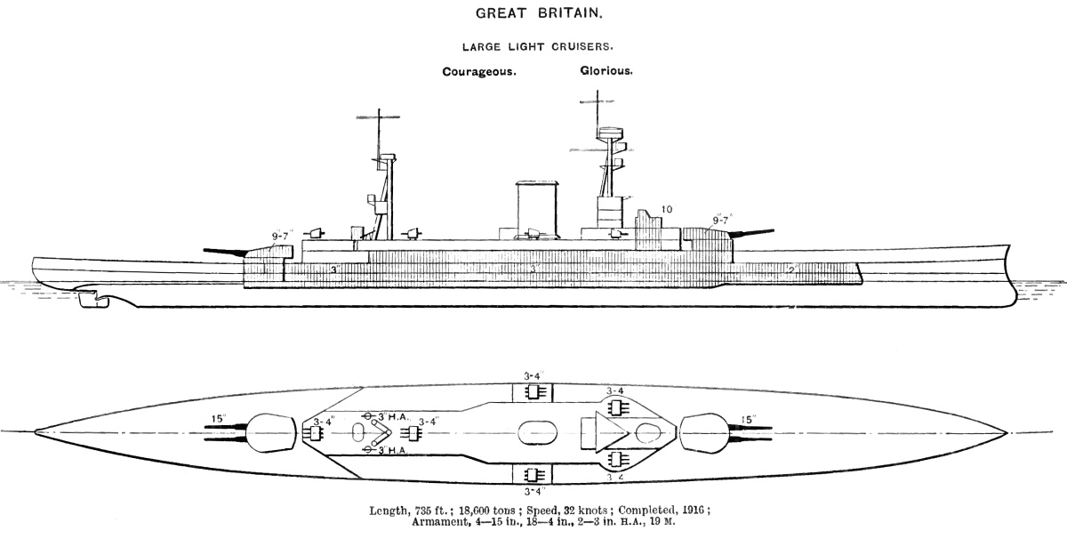 Right elevation and deck plan diagrams showing British Glorious class large light cruiser, before conversion to aircraft carrier.